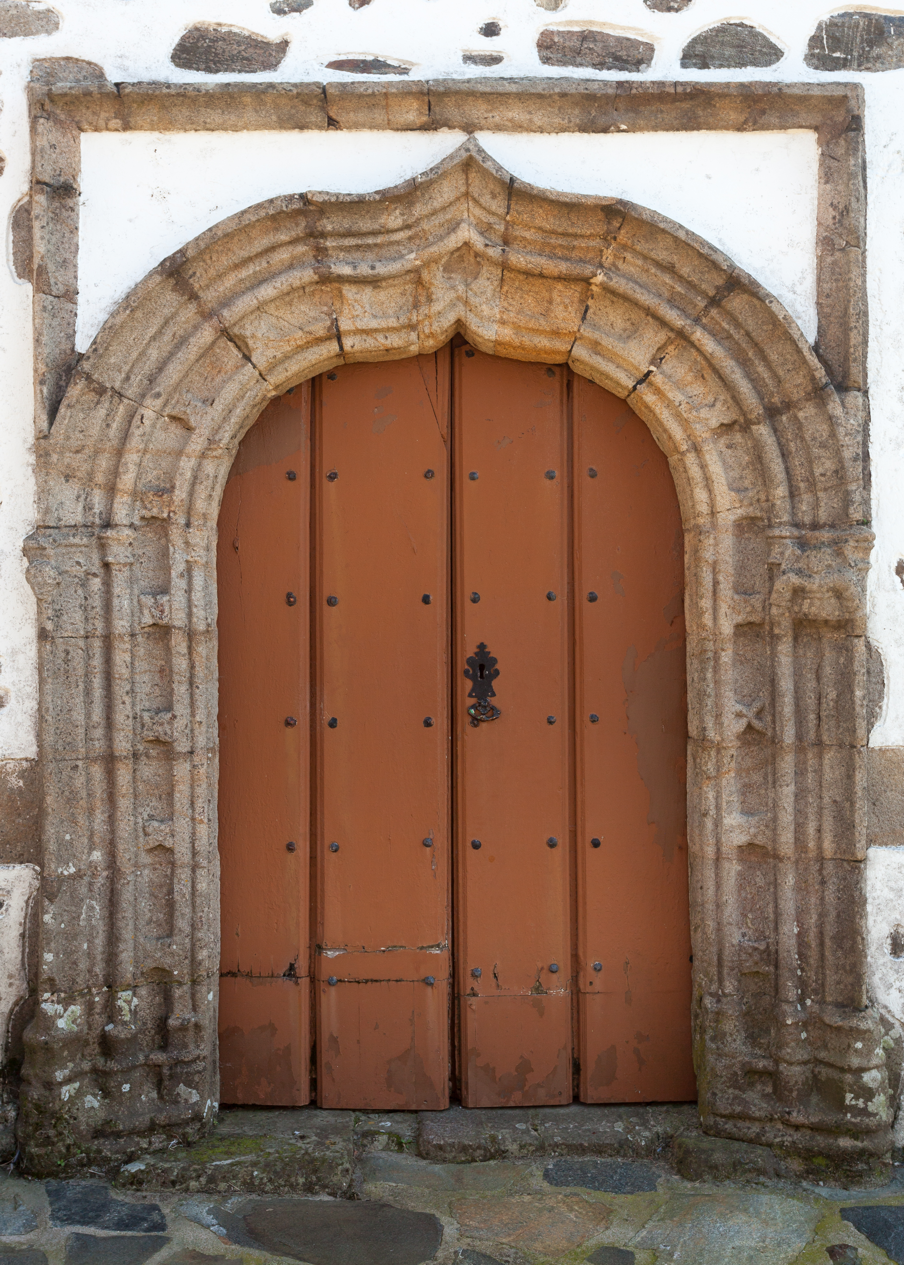 Portal of the church of Santo André de Teixido, Cedeira, Galicia (Spain)